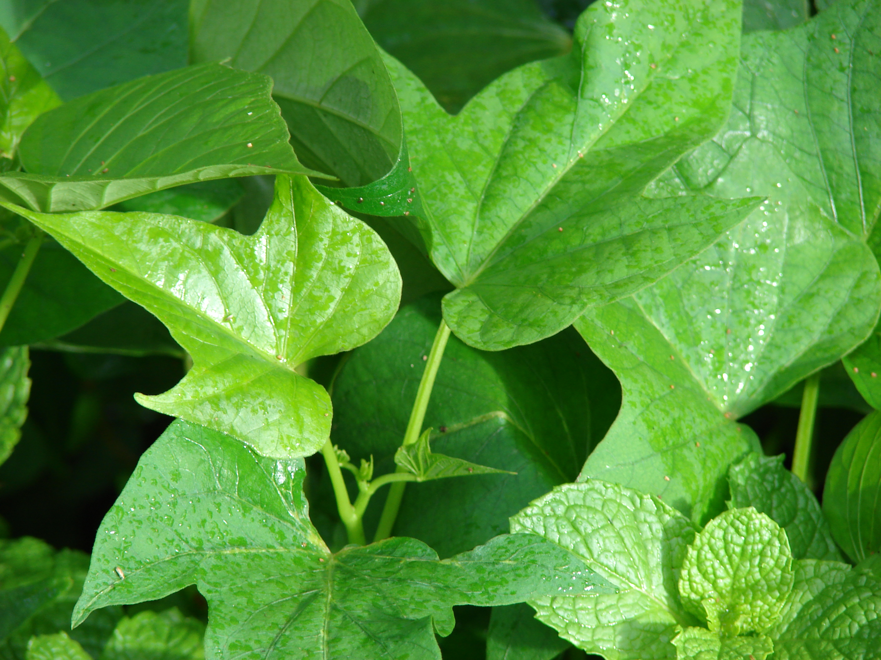 Ipomoea batatas (Sweet potato) Leaves at Water plant Sand Island, Midway Atoll, Hawaii. June 08, 2008 #080608-7436 Image Use Policy